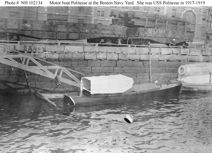 Motorboat Politesse, which later served as the United States Navy patrol boat , at the Boston Navy Yard in Boston, Massachusetts